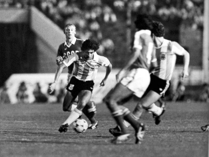 Argentine striker Ramón Díaz carrying the ball in the final match v. URSS at the 1979 FIFA World Youth Championship.